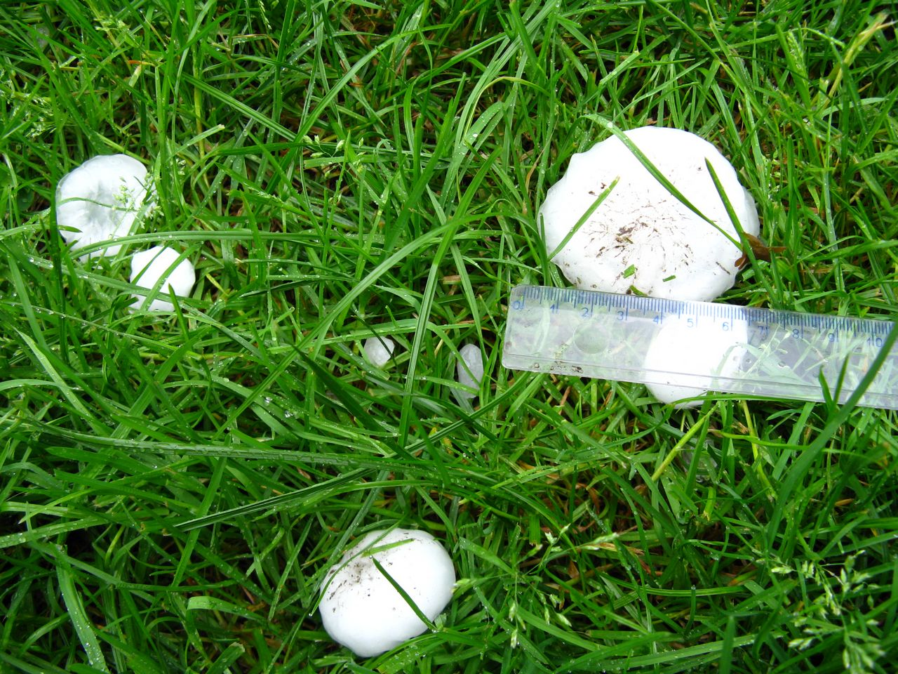 Hail, Katowice, 15 august 2008